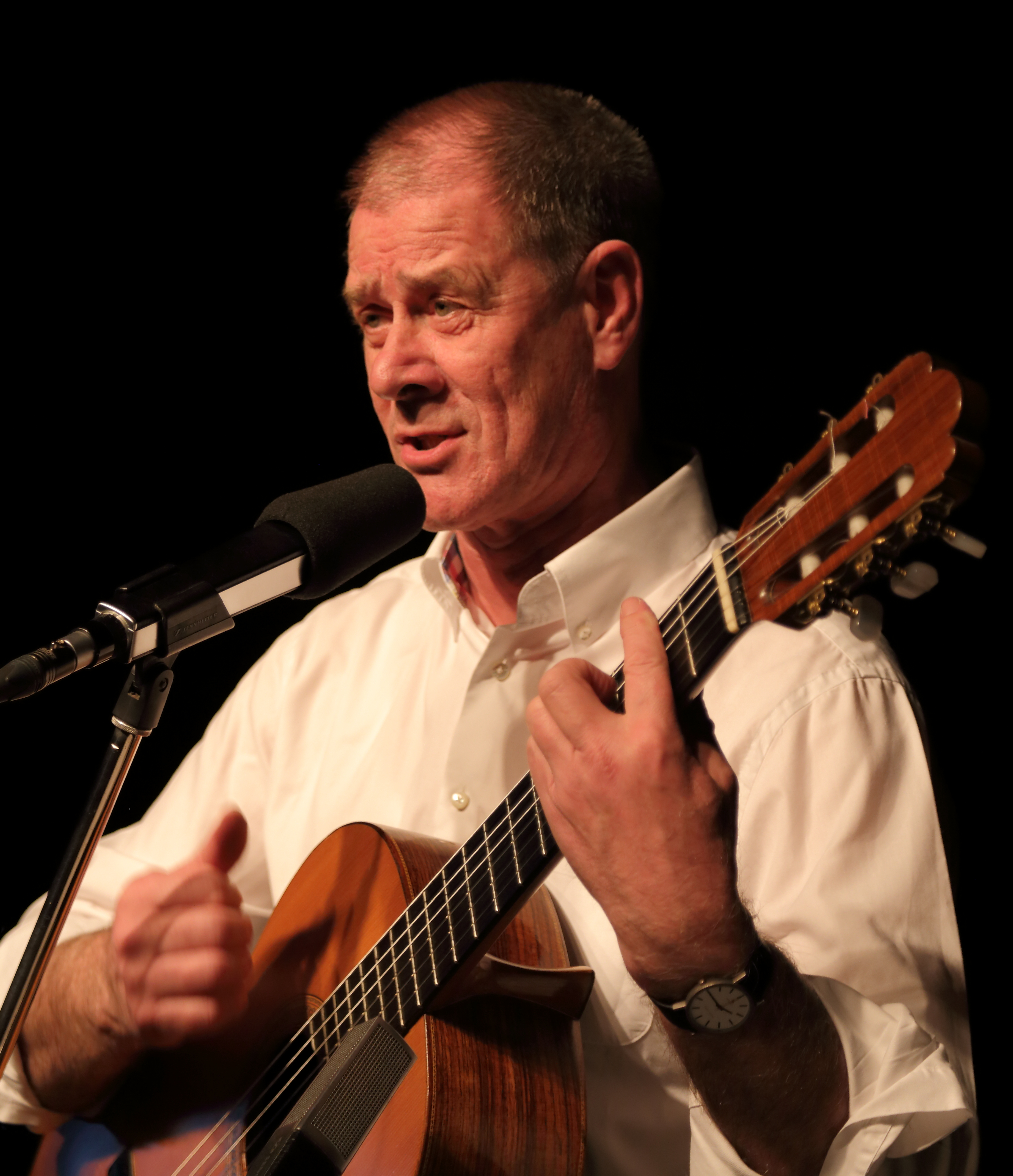 German musician and singer-songwriter Wolfgang Rieck during a performance at the Kulturspeicher Dörenthe in Ibbenbüren-Dörenthe, Kreis Steinfurt, North Rhine-Westphalia, Germany.